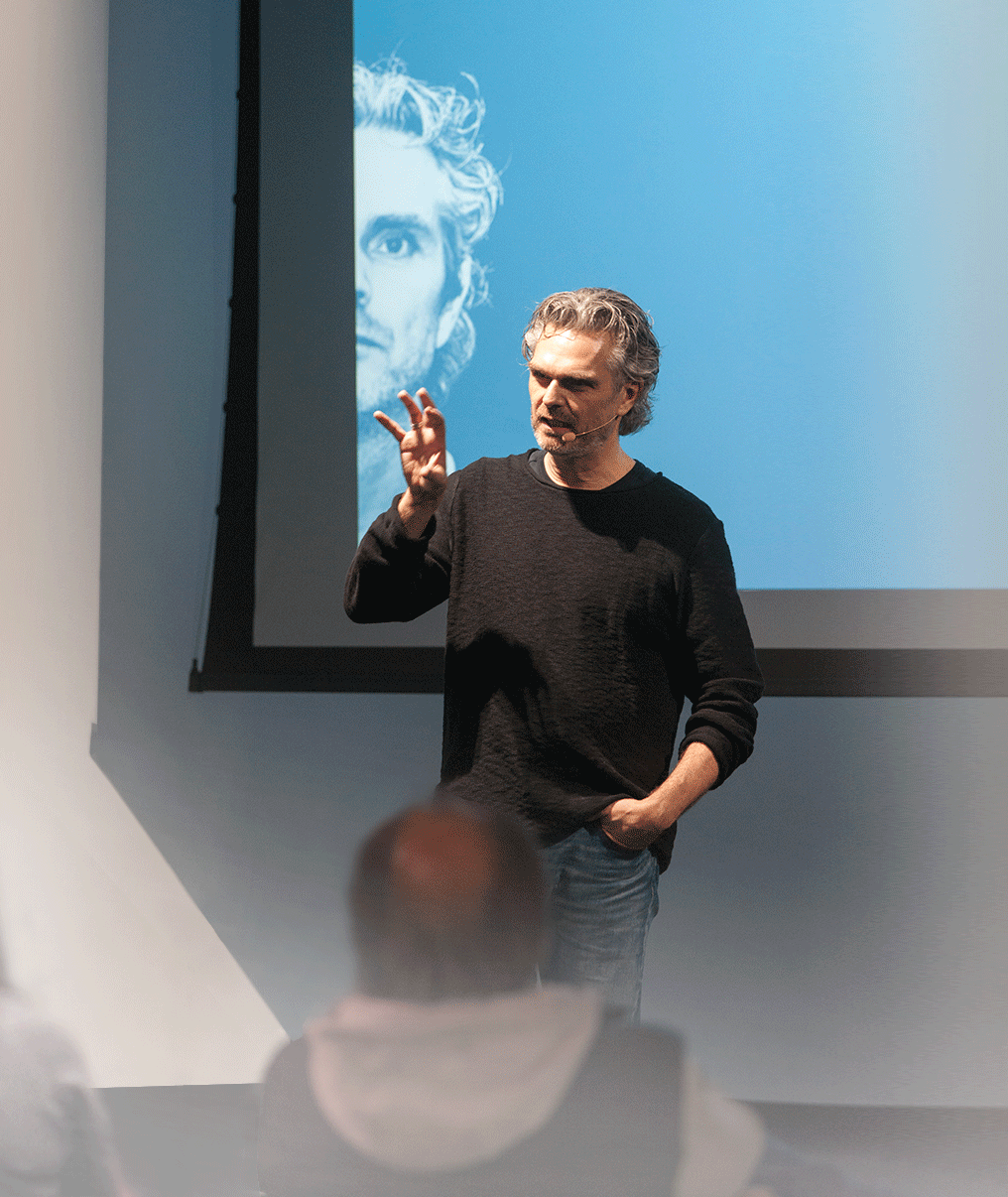 Keynote speaking Erik Schneider, Creative After Work, EMMA Kreativzentrum Pforzheim